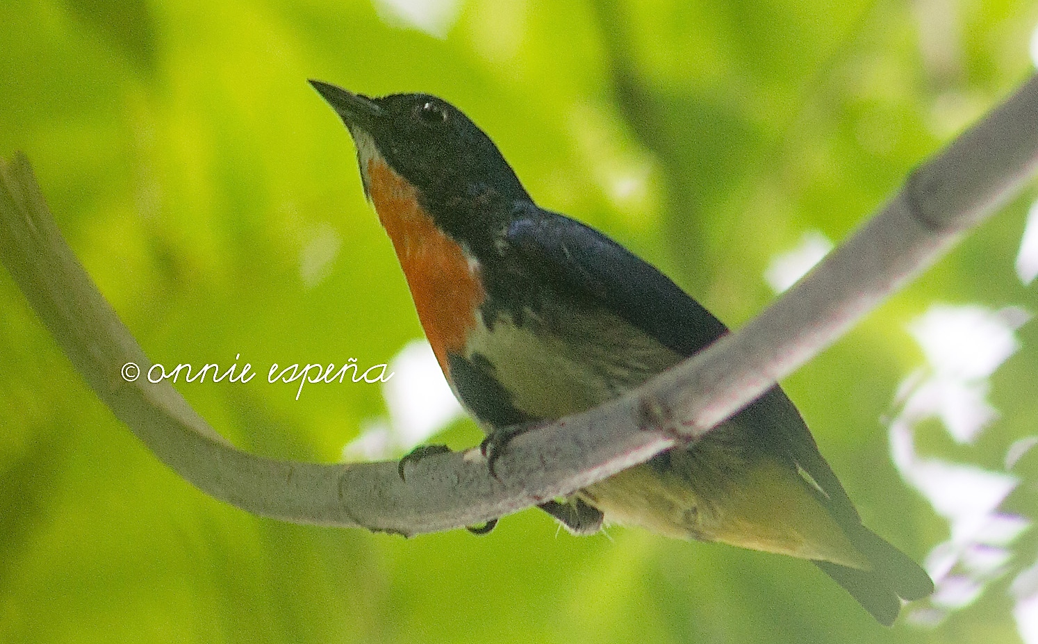 Fire-breasted Flowerpecker (Dicaeum ignipectus or Dicaeum luzoniense), Twin Lakes, Sibulan, Negros Oriental, Philippines